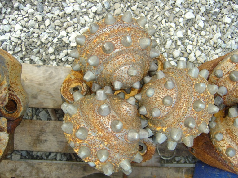 Moderately Used drill Bit Philbentley 20:07, 22 October 2006 (UTC)